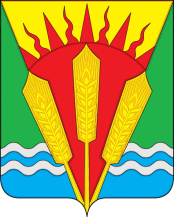 Coat of arms of Lovlinskaya, Tbiliskaya Raion, Krasnodar Krai, Russia.